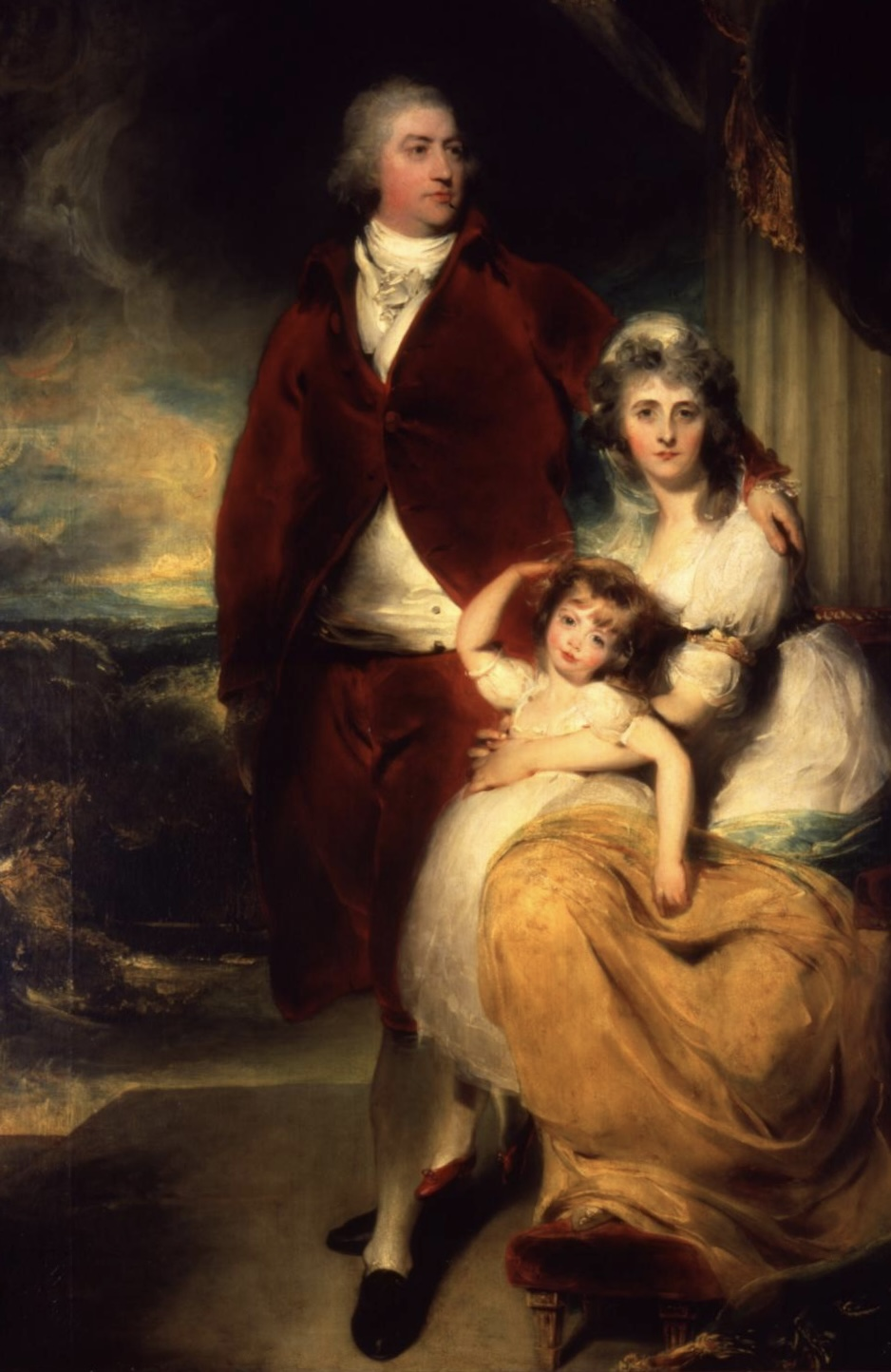 Portrait of Henry Cecil, 1st Marquess of Exeter (1754-1804) with his wife Sarah, and their daughter, Lady Sophia Cecil (1792-1823)